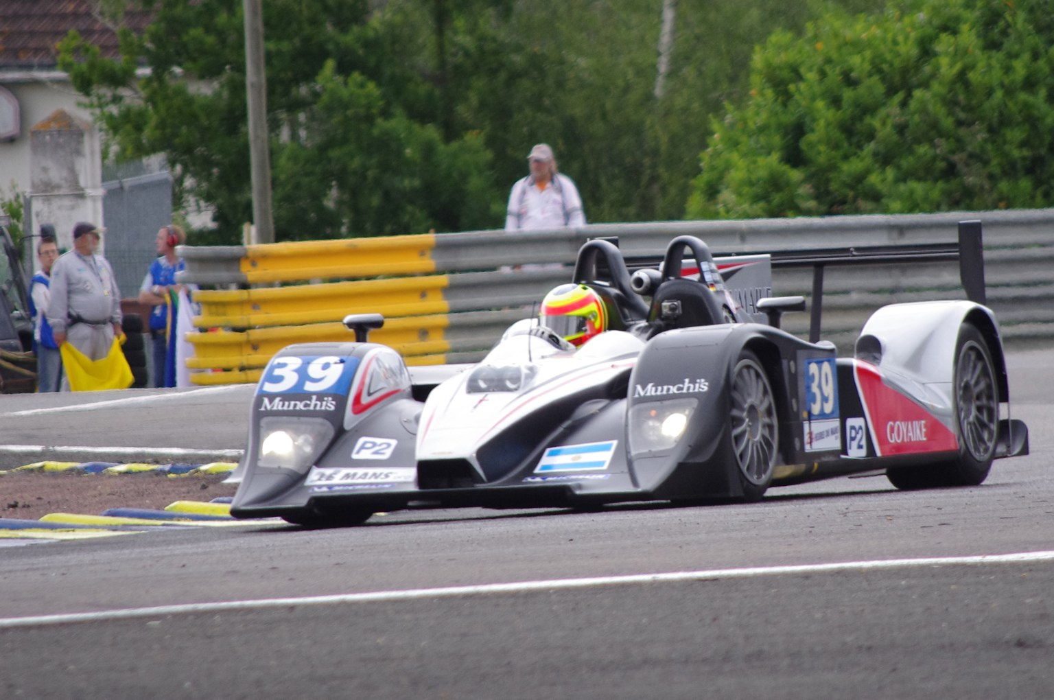 PeCom Racing's Lola B11/40 Judd BMW Driven by Luis Perez-Companc, Matias Russo and Pierre Kaffer The Michelin Chicane, Le Mans 2011